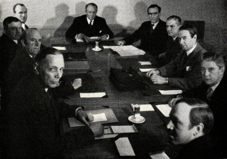 The so-called Atomic Committee (Atomkommittén), which was appointed at the beginning of December 1945. From the left: Chief Director Albert Björkeson, Director Ragnar Liljeblad, Professor Manne Siegbahn, Acting Secretary Assistent Edward Reuterswärd, County Governor Malte Jacobson, Chairman, Director General Håkan Sterky, Professors Bo Kalling, Arne Tiselius, Torsten Gustafson and Hannes Alfvén (in profile). Non-attending is Lieutenant Colonel Torsten Schmidt.